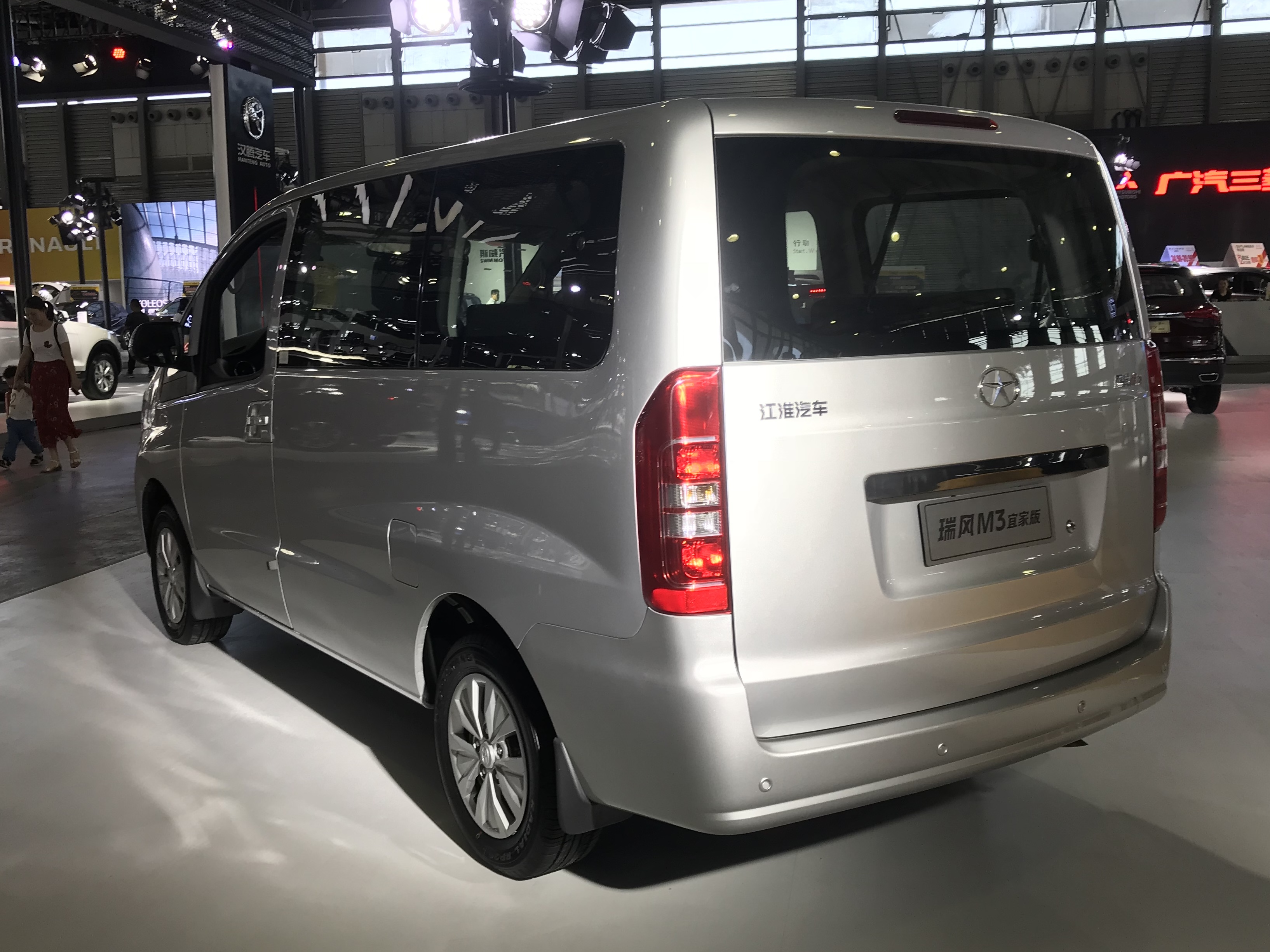 Refine M3 rear